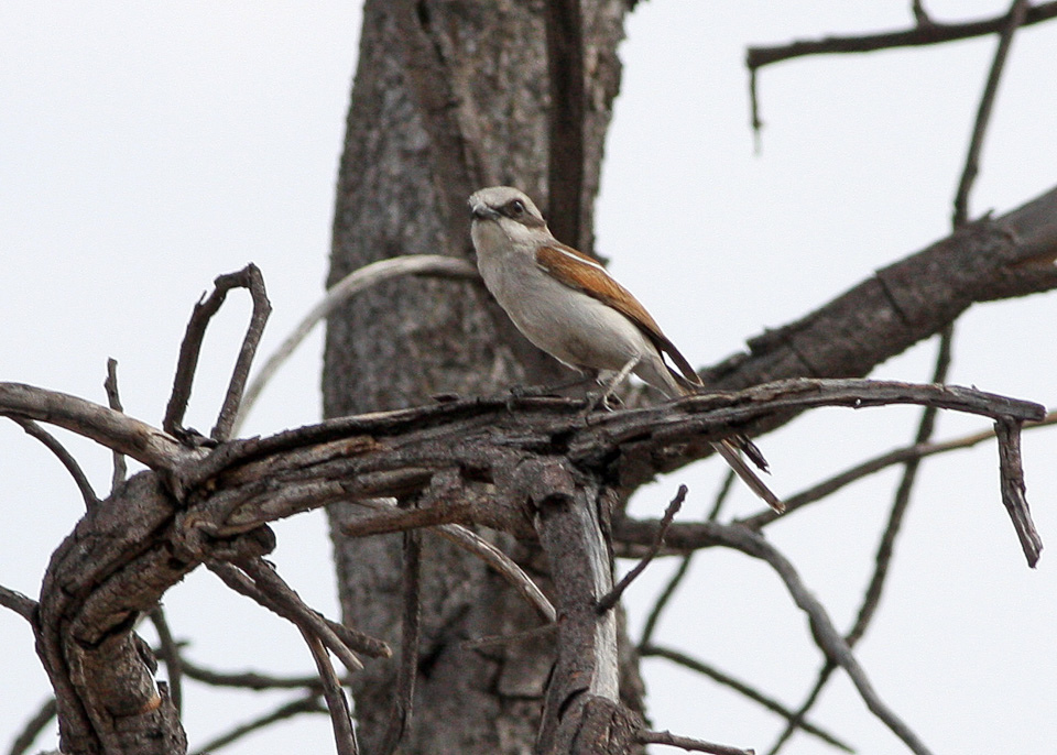 On the road from Tsumeb to Rundu (Namibia)